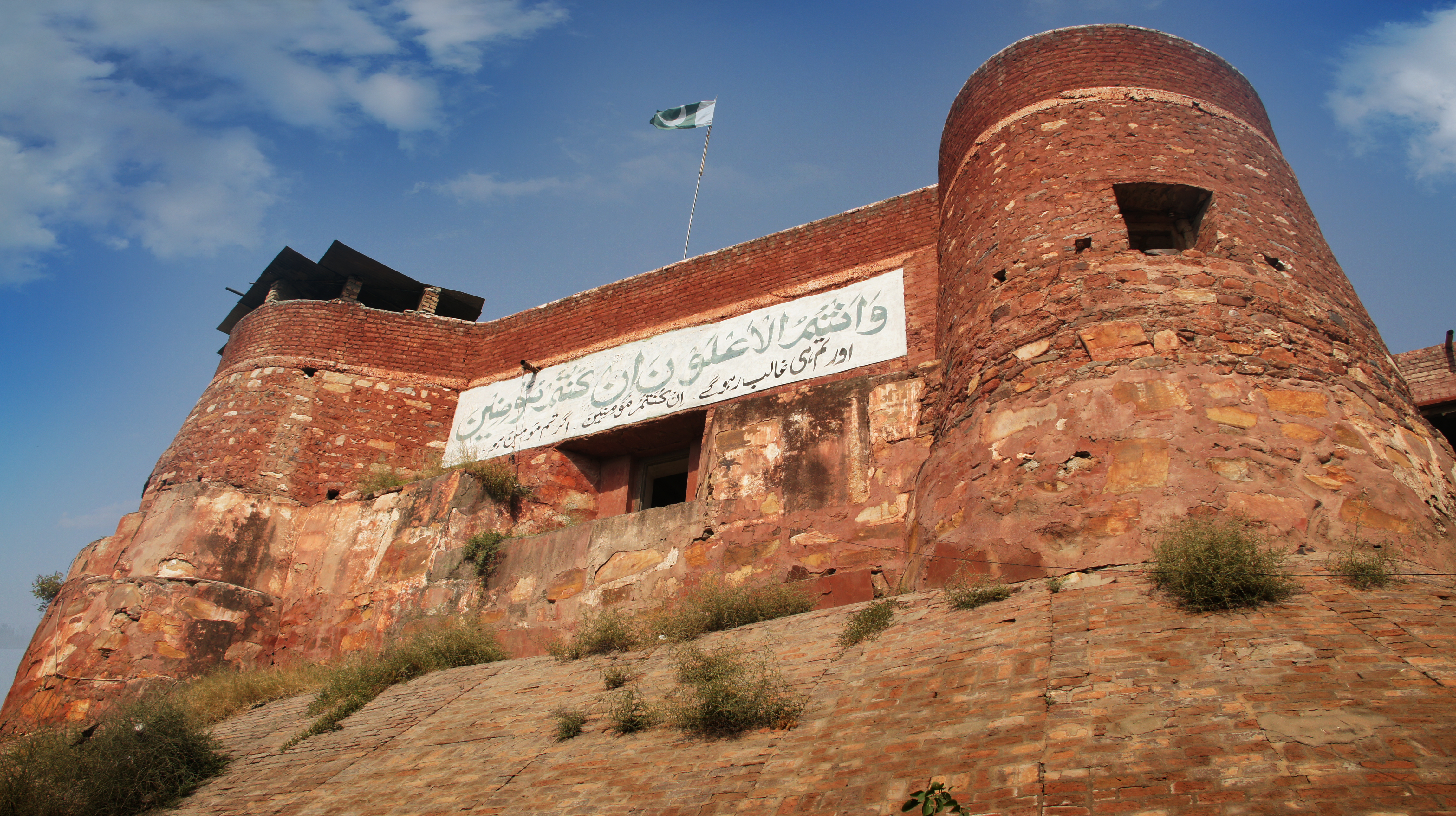 Jamrud Fort was built by the Sikh governor of Peshawar, Hari Singh, in 1836. This is a photo of a monument in Pakistan identified as the FATA-3